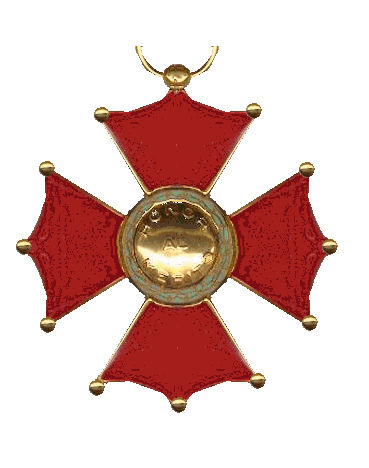 La Cruz de las Fuerzas Terrestres Venezolanas Army Cross Venezuela 1952 First Class